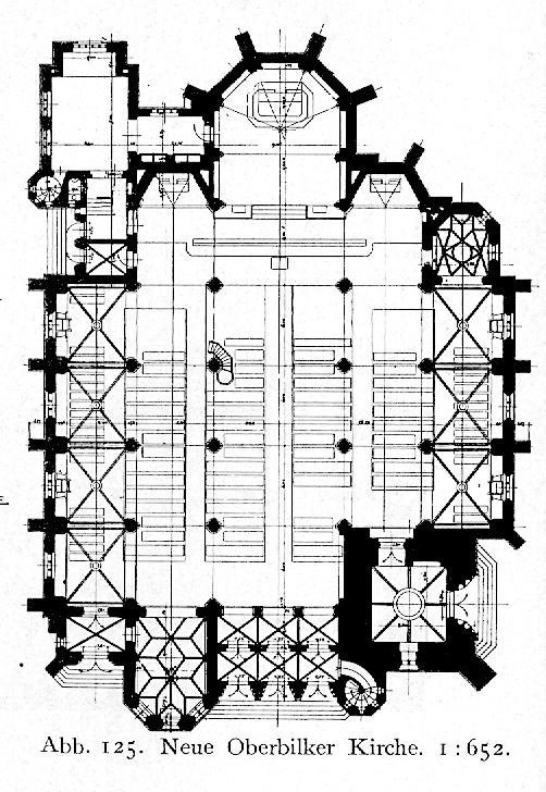 St. Apollinariskirche in Düsseldorf-Oberbilk, erbaut von 1904 bis 1907, Architekt Caspar Clemens Pickel,Grundriss ("Neue Oberbilker Kirche").jpg